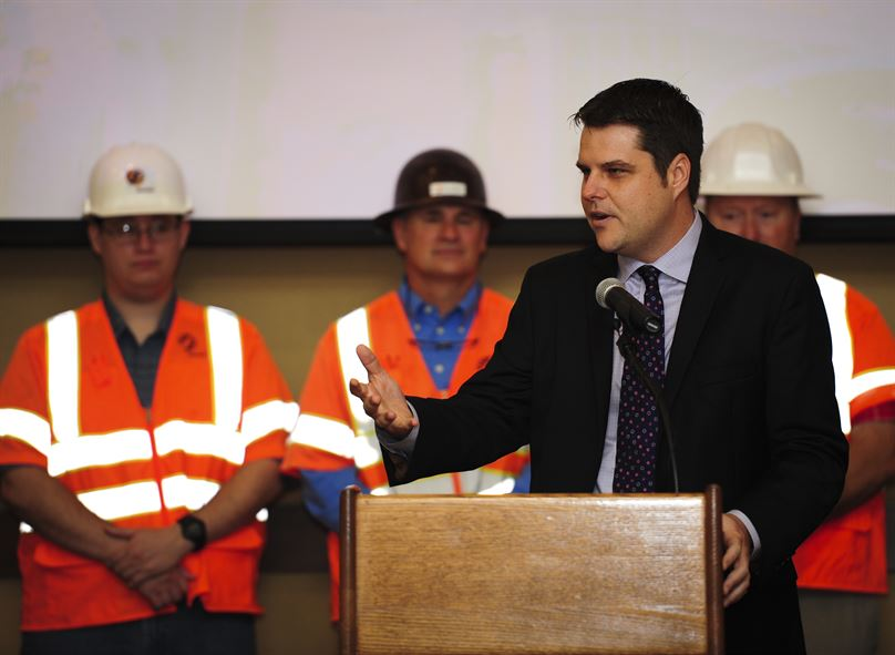 Matt Gaetz speaking at a celebration for the completion of the US 98 interchange